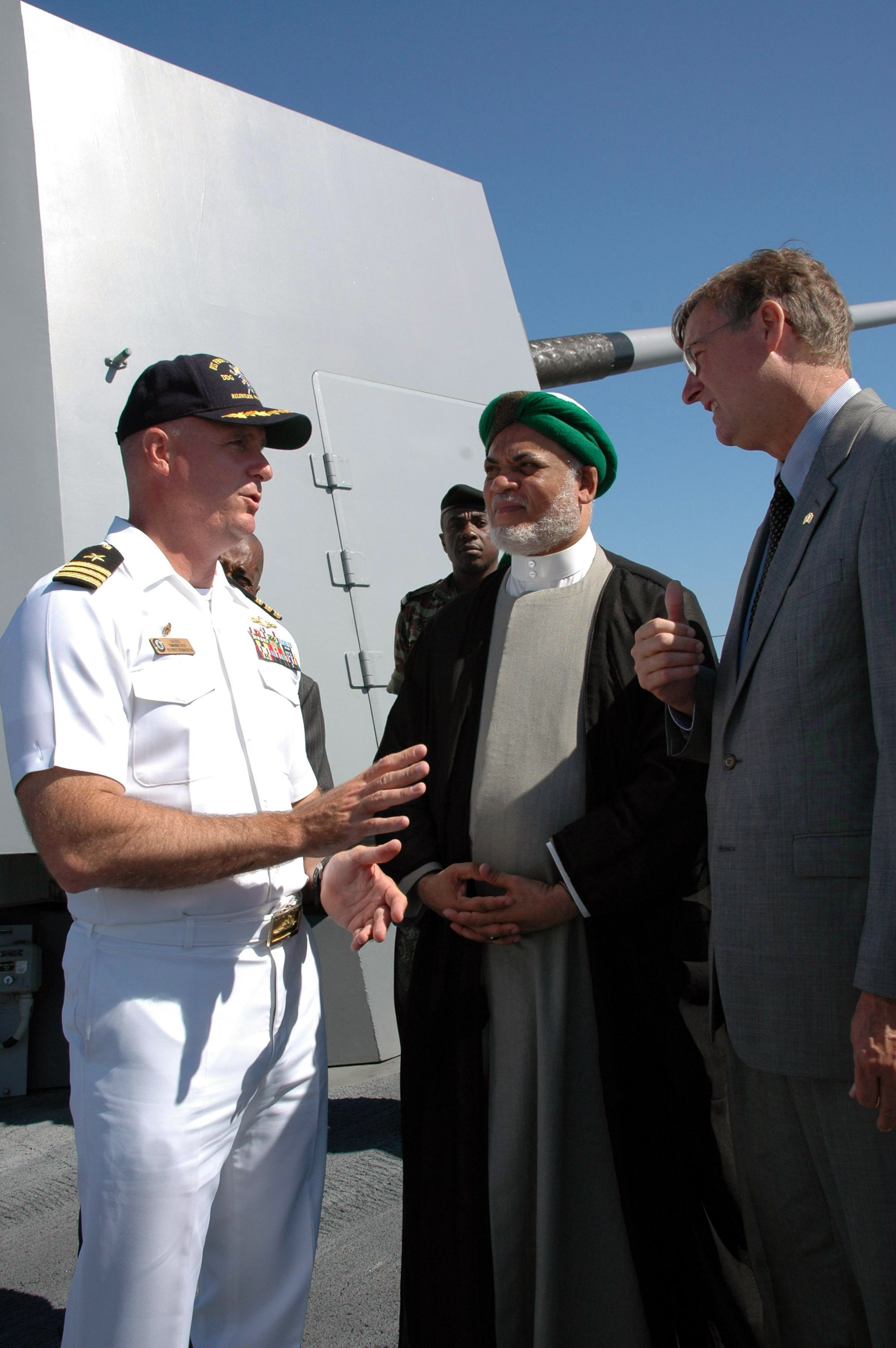 MORONI, Comoros (Sept. 13, 2007) - Cmdr. Dean Vesely, commanding officer of guided-missile destroyer USS Forrest Sherman (DDG 98), gives a tour to the President of Comoros Ahmed Abdallah Mohamed Sambi and U.S. Ambassador to Madagascar, Mauritius, and Comoros, Niels R. Marquardt as the ship transits off the coast of the east African island nation. Forrest Sherman is the first U.S. Navy ship to visit the region in more than 30 years. U.S. Navy photo by Gillian Brigham (RELEASED)